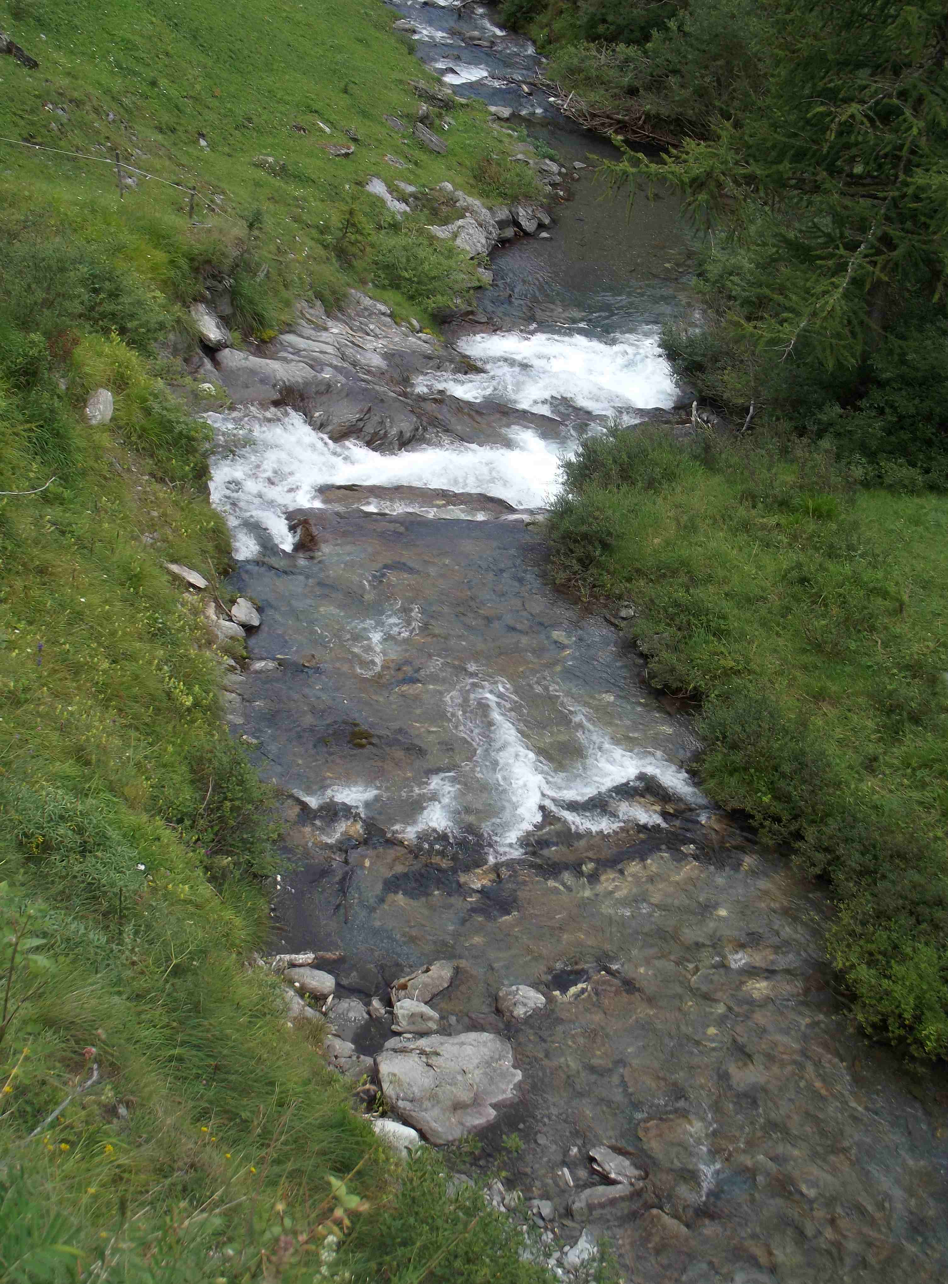 Germanasca di Rodoretto (TO, Italy)